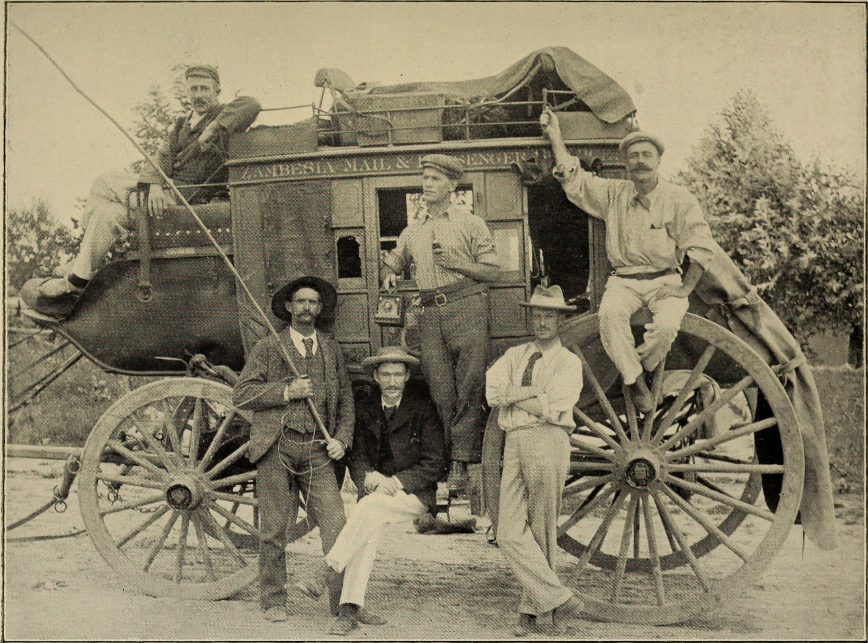 First run of the Zambesia Mail and Passenger Company stage coach between Salisbury (now Harare) and Umtali (now Mutare), Southern Rhodesia (now Zimbabwe) ( [1])